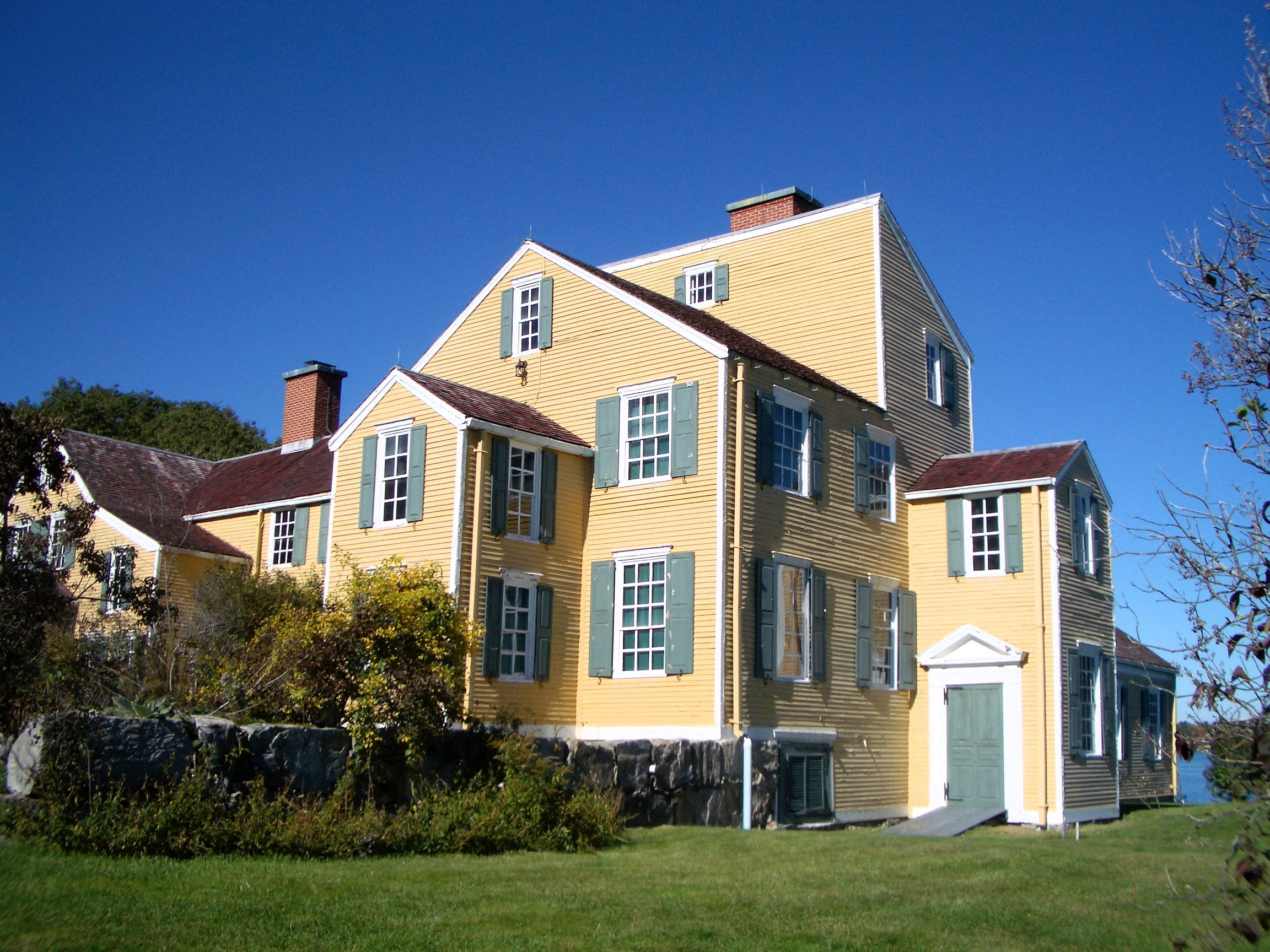 Wentworth-Coolidge Mansion, Portsmouth, New Hampshire, USA, southeast view, showing main door with pediment, family wing to left, shed roof that provided access to roof deck (later covered by gable)